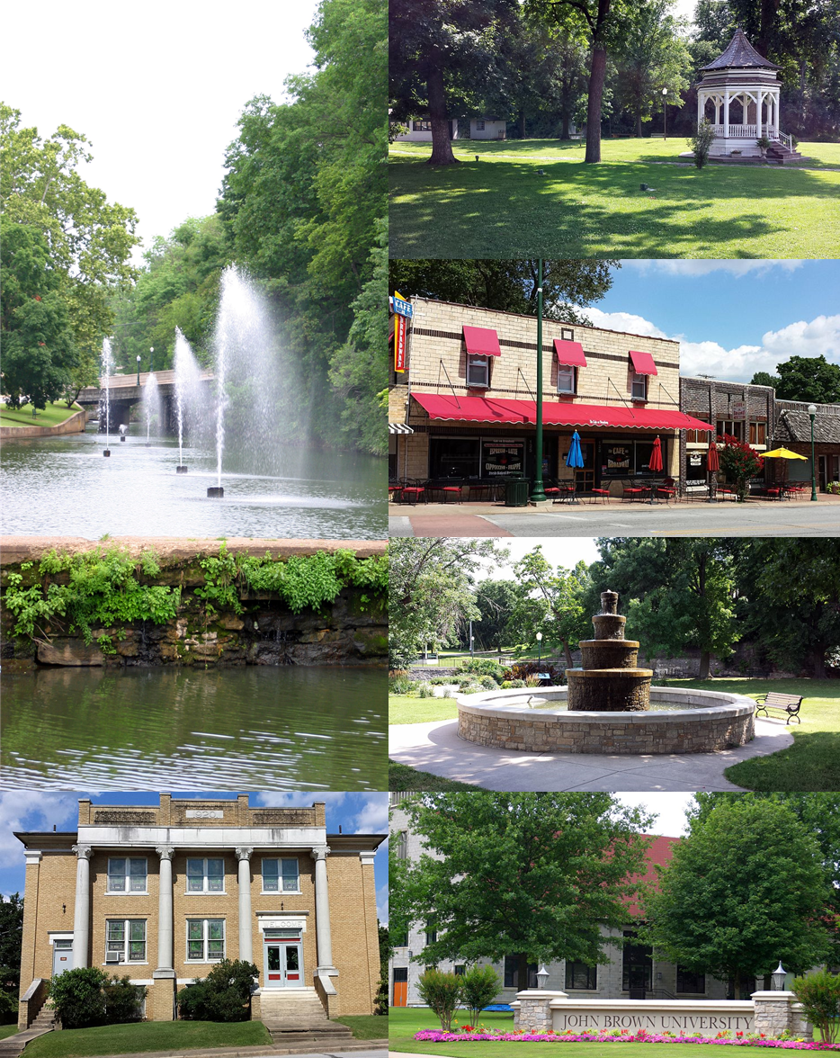 File:City Park, Siloam Springs, AR 001.jpg File:Downtown Siloam Springs, AR 009.jpg File:Downtown Siloam Springs, AR 016.jpg File:John Brown University Sign.jpg, from User:Tim Morgan File:Downtown Siloam Springs, AR 022.jpg File:Siloam Springs Arkansas Fountains.JPG, from User:Tim Morgan